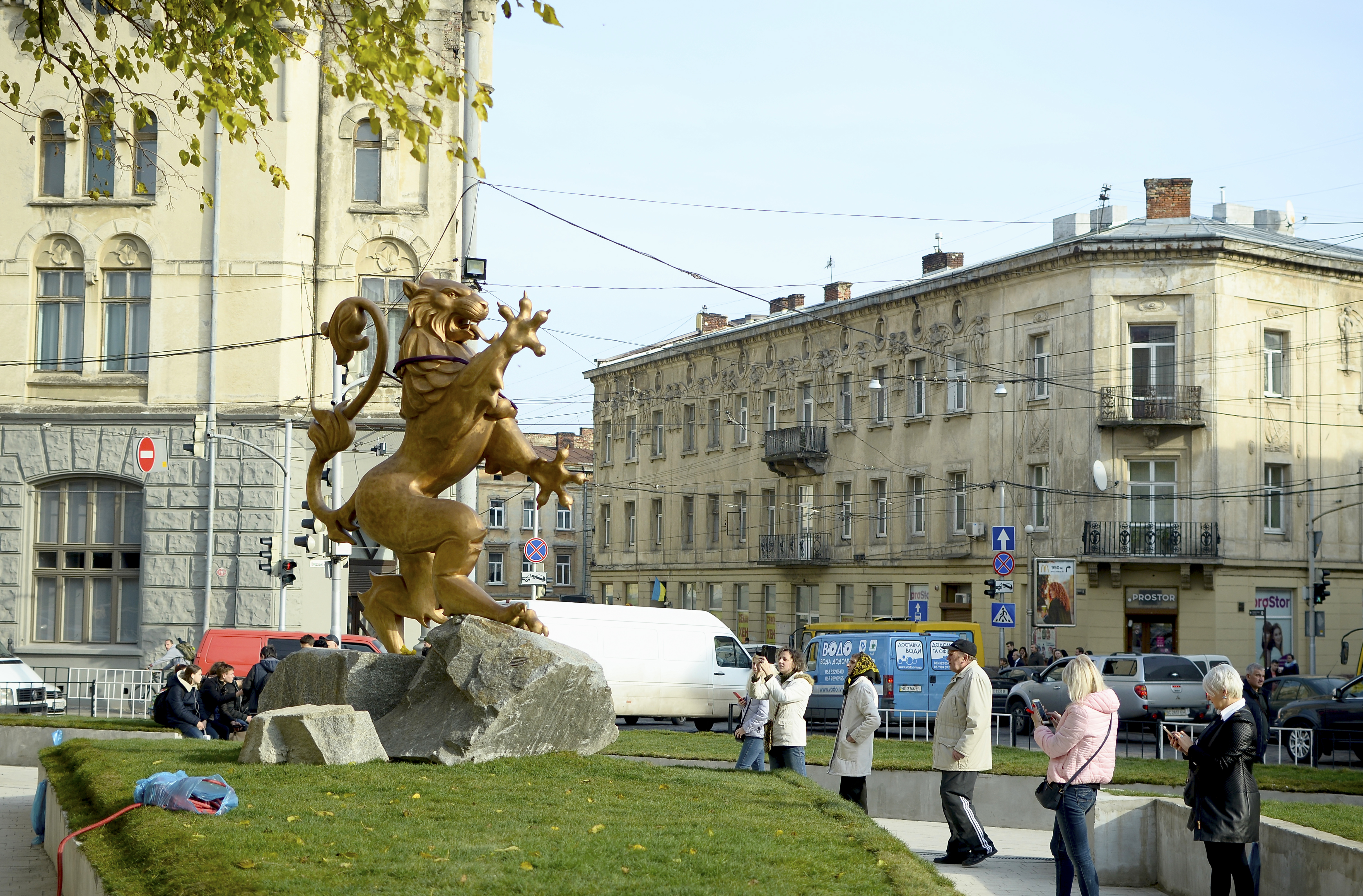 Horodots`ka street and Ukrainian Sich Riflemen Monument in Lviv